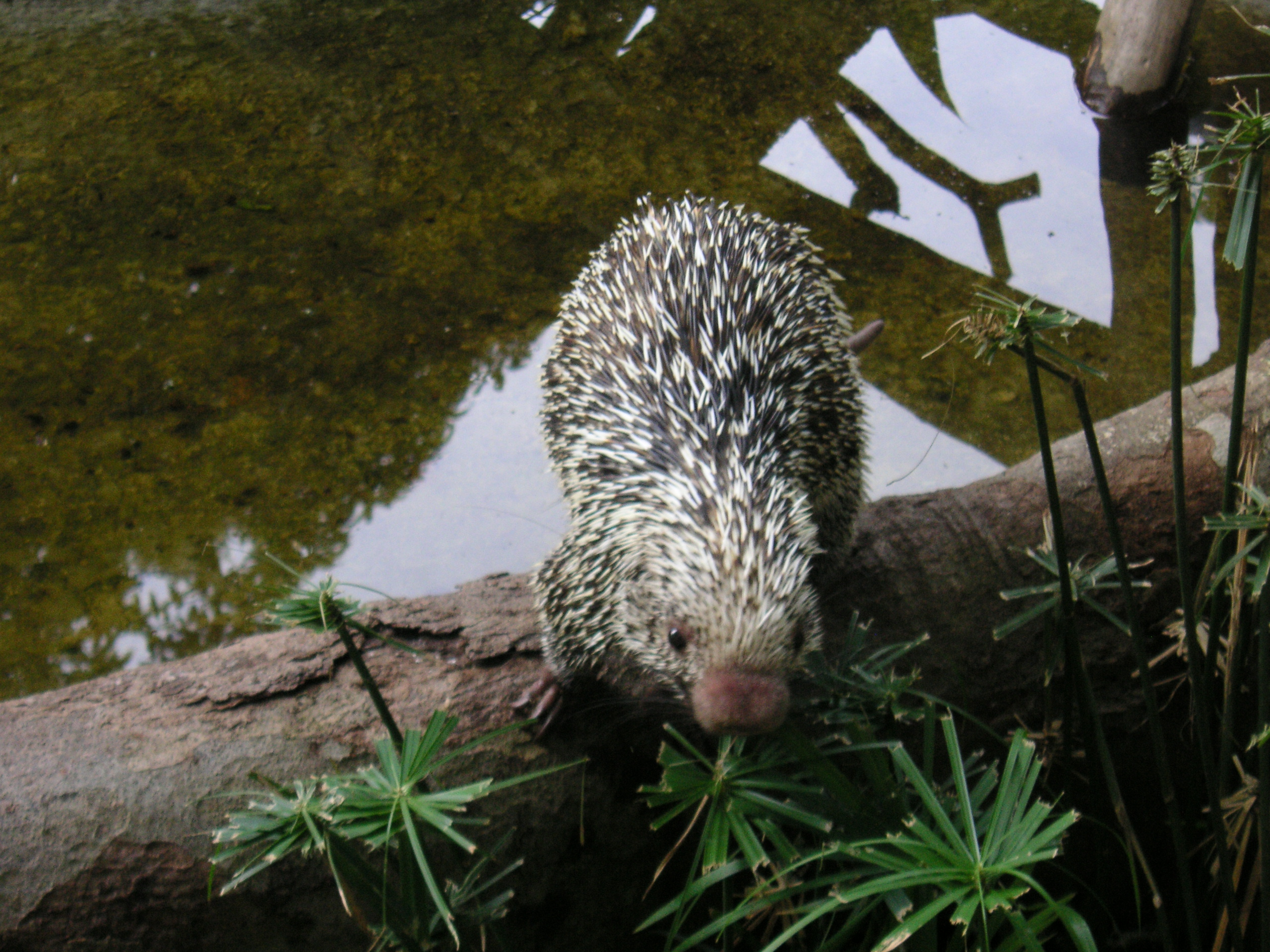 Caracas Zoo, Coendou rothschildi.